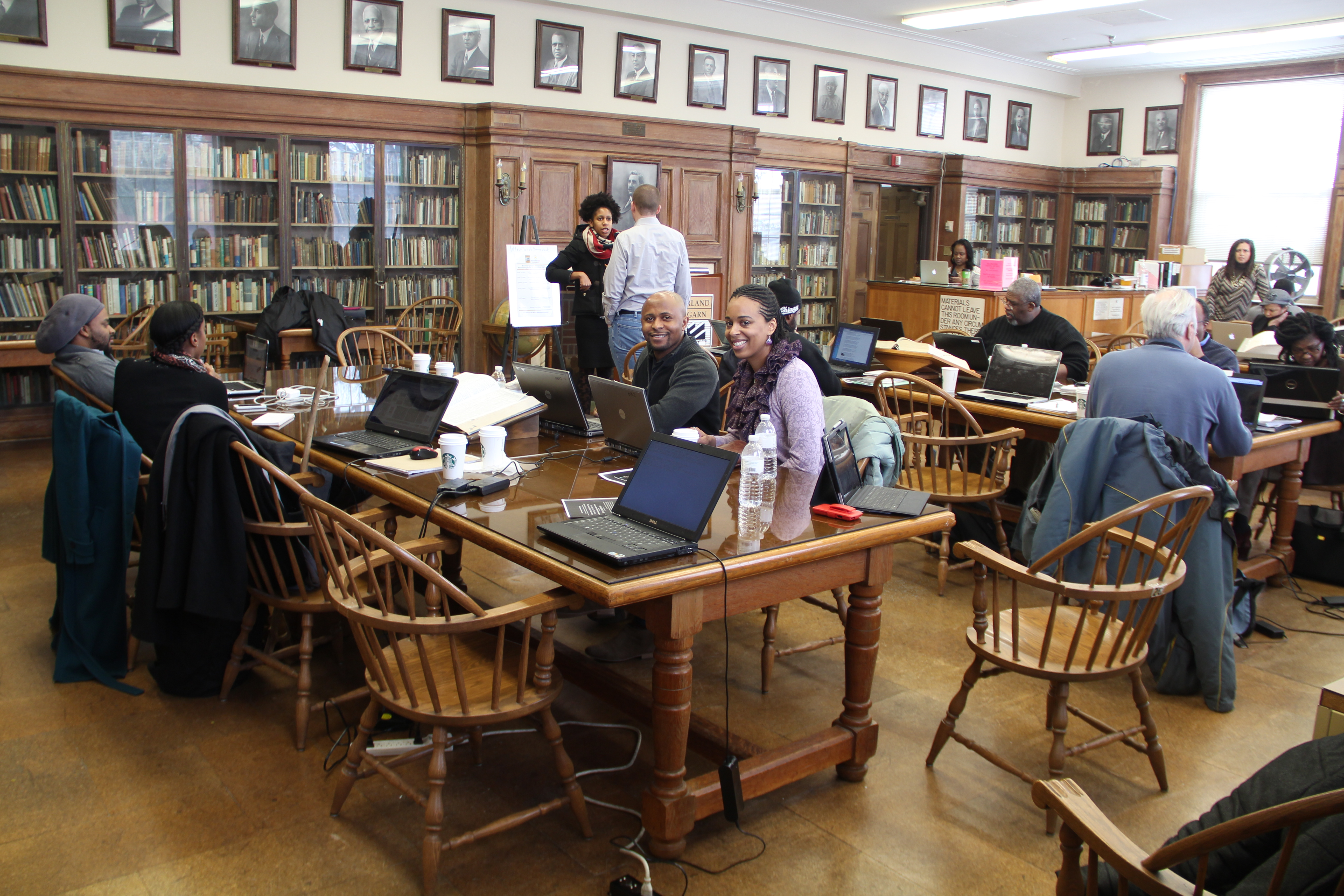 Howard University Black History Edit-a-Thon 2015 at Moorland–Spingarn Research Center